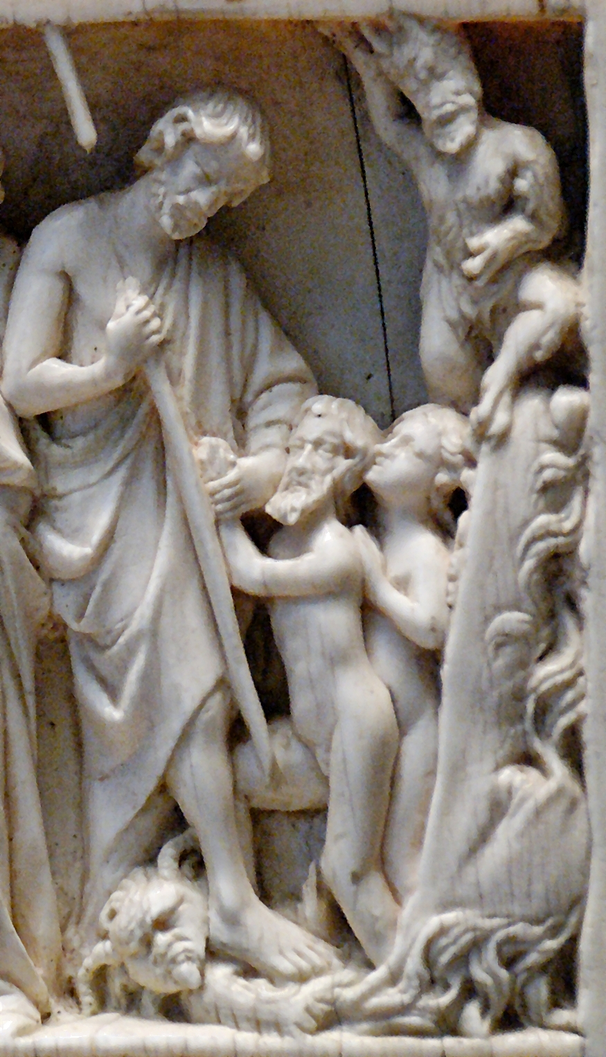 Descent of Christ into limbo, detail from a diptych representing scenes from the Passion of Christ.